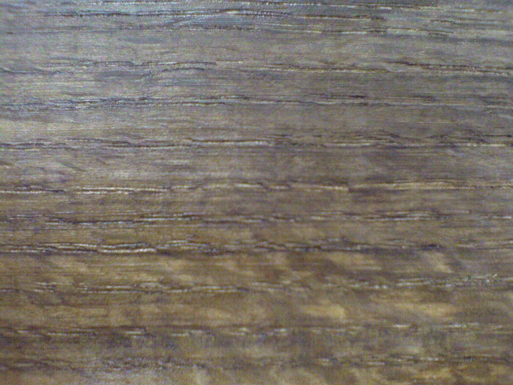 black oak